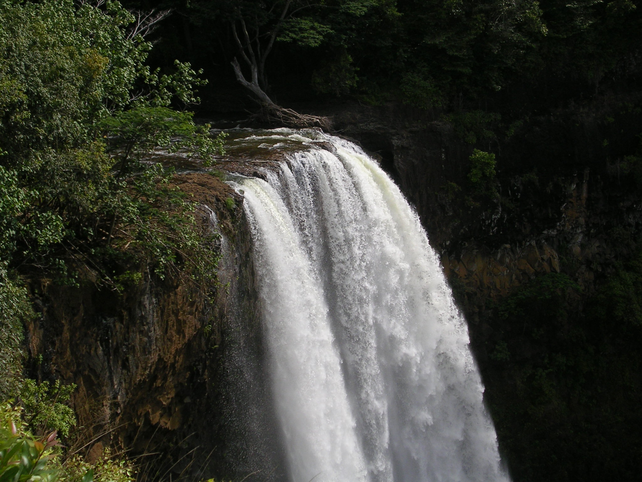 Wailua Falls, island of Kauai, Hawaii Photo by Alejandro Bárcenas (2006)